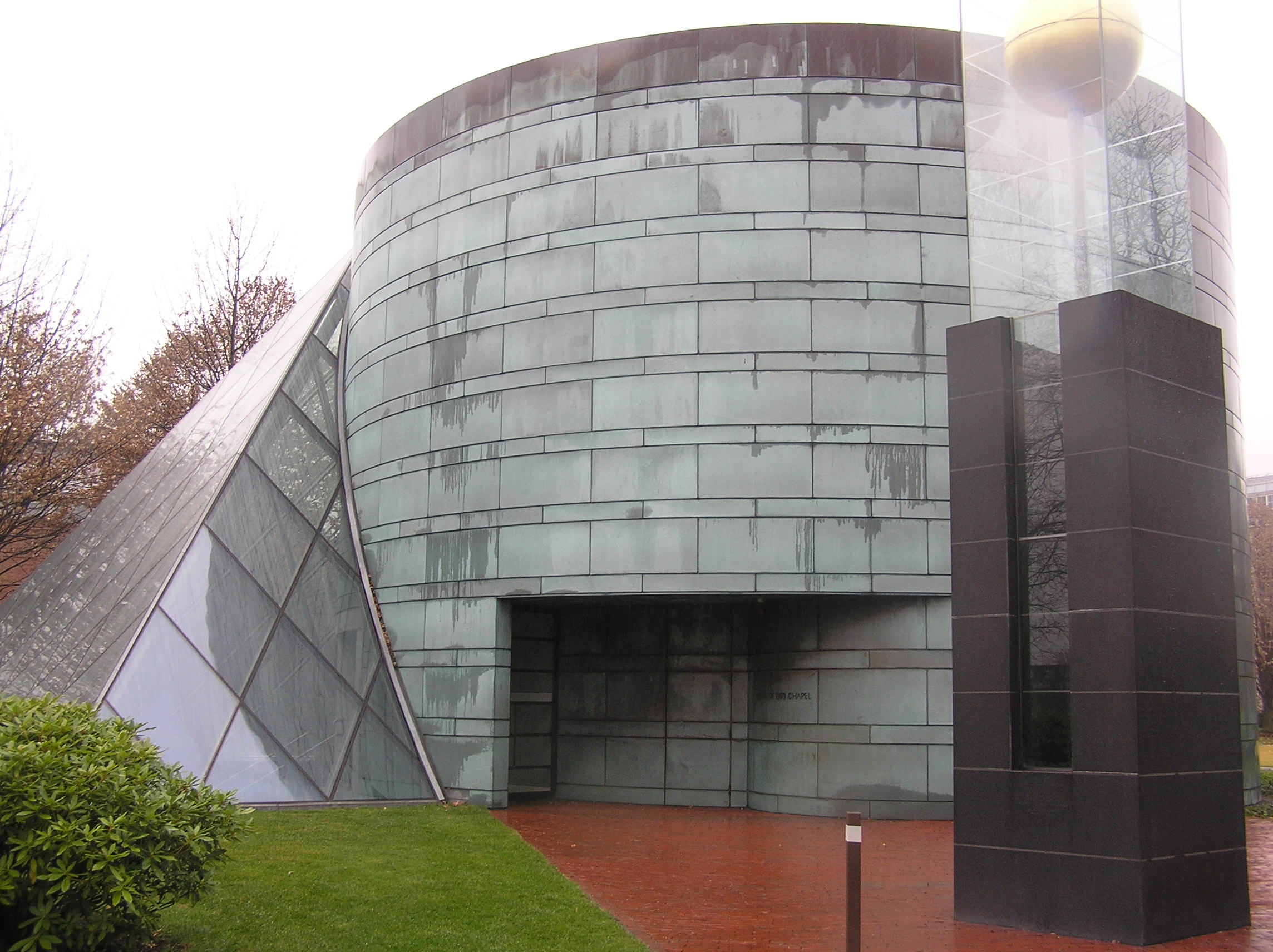 Class of 1959 chapel, Harvard. My own photo.